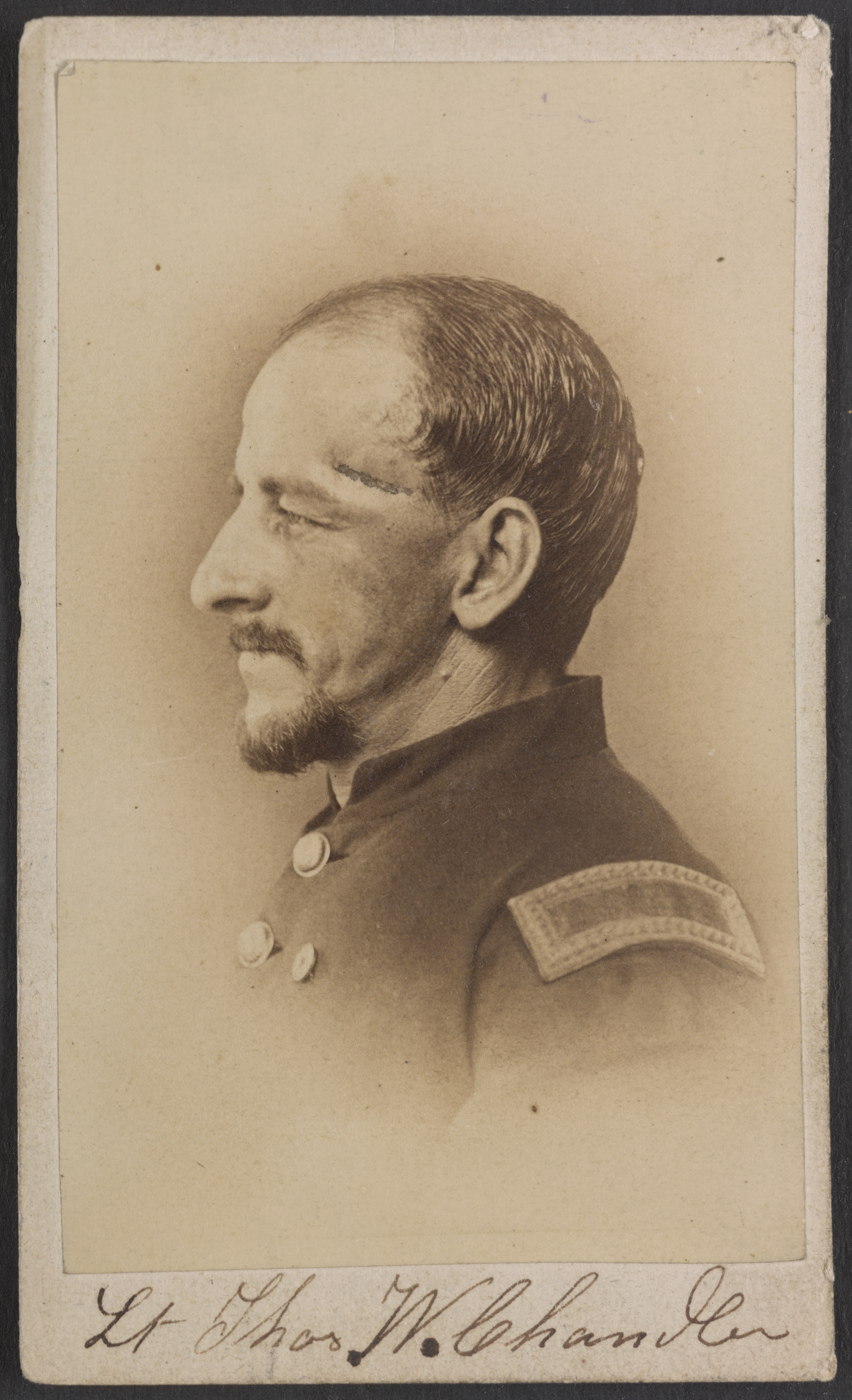 Title: Lt. Thos. W. Chandler Abstract/medium: 1 photographic print on carte de visite mount : albumen ; 10.2 x 6.1 cm.